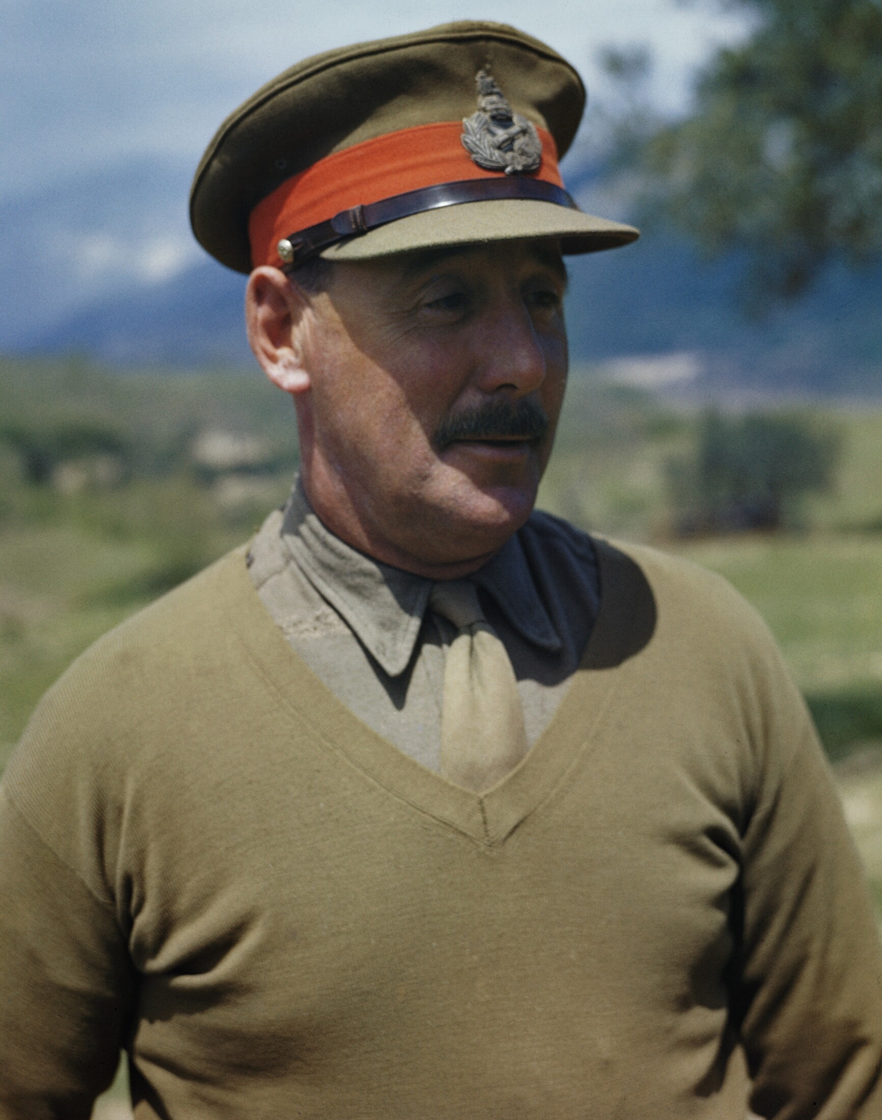 Lieutenant General Sir Oliver Leese, commander of the British Eighth Army in Italy, 30 April 1944. Half-length portrait of Lieutenant General Sir Oliver Leese, KCB, CB, CBE, DSO, at his Battle Headquarters in the Mignano area.